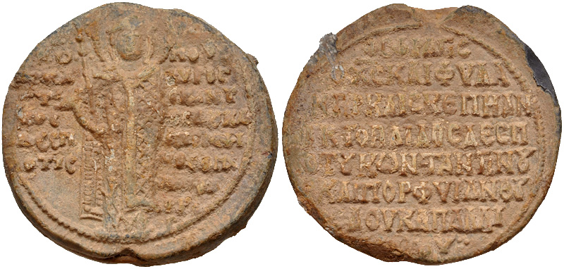 Constantine Ducas Comnenus Palaeologes, despotes and porphyrogennetos. Late 13th-early 14th centuries. PB Seal (36mm, 29.74 g, 12h). Constantine, nimbate and in imperial regalia, standing facing, holding jeweled scepter / Metrical legend citing nam and titles. BLS I 2758 and note. VF, light brown patina. Earlier scholars assigned this Constantine as a son of Michael VIII, or, more preferably, as a son of Andronicus II.